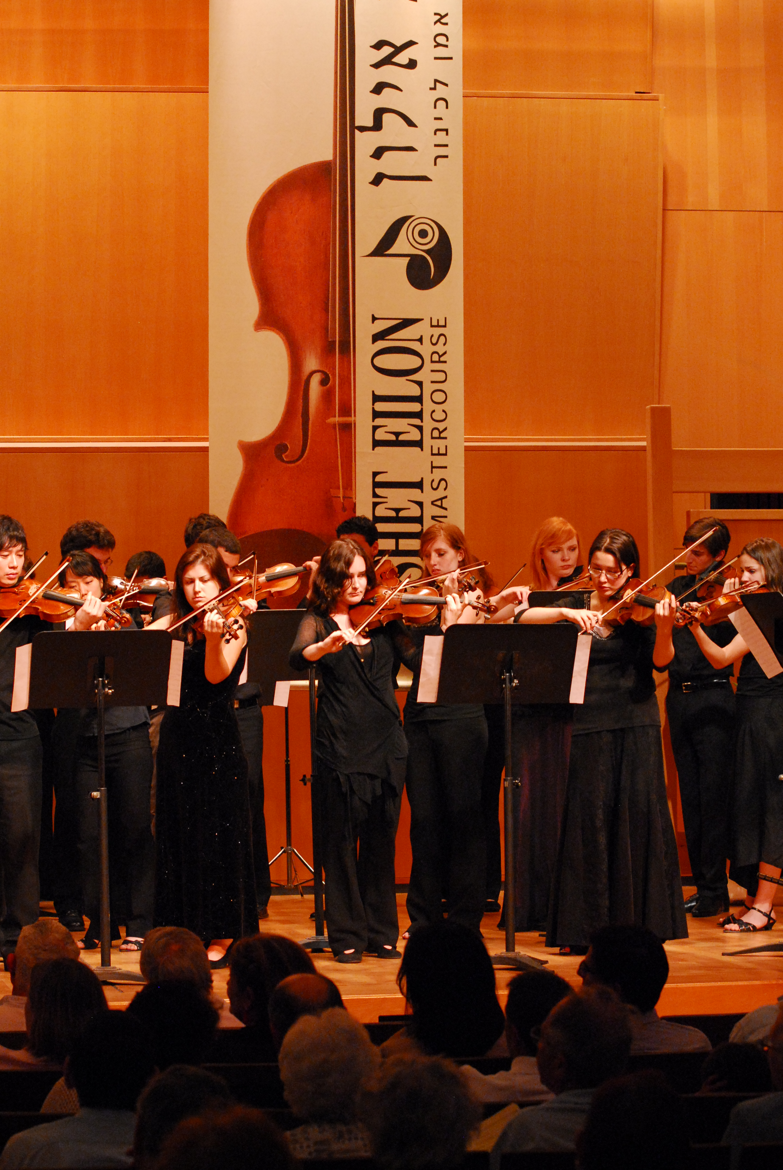 Violinists on the Keshet Eilon stage 2009